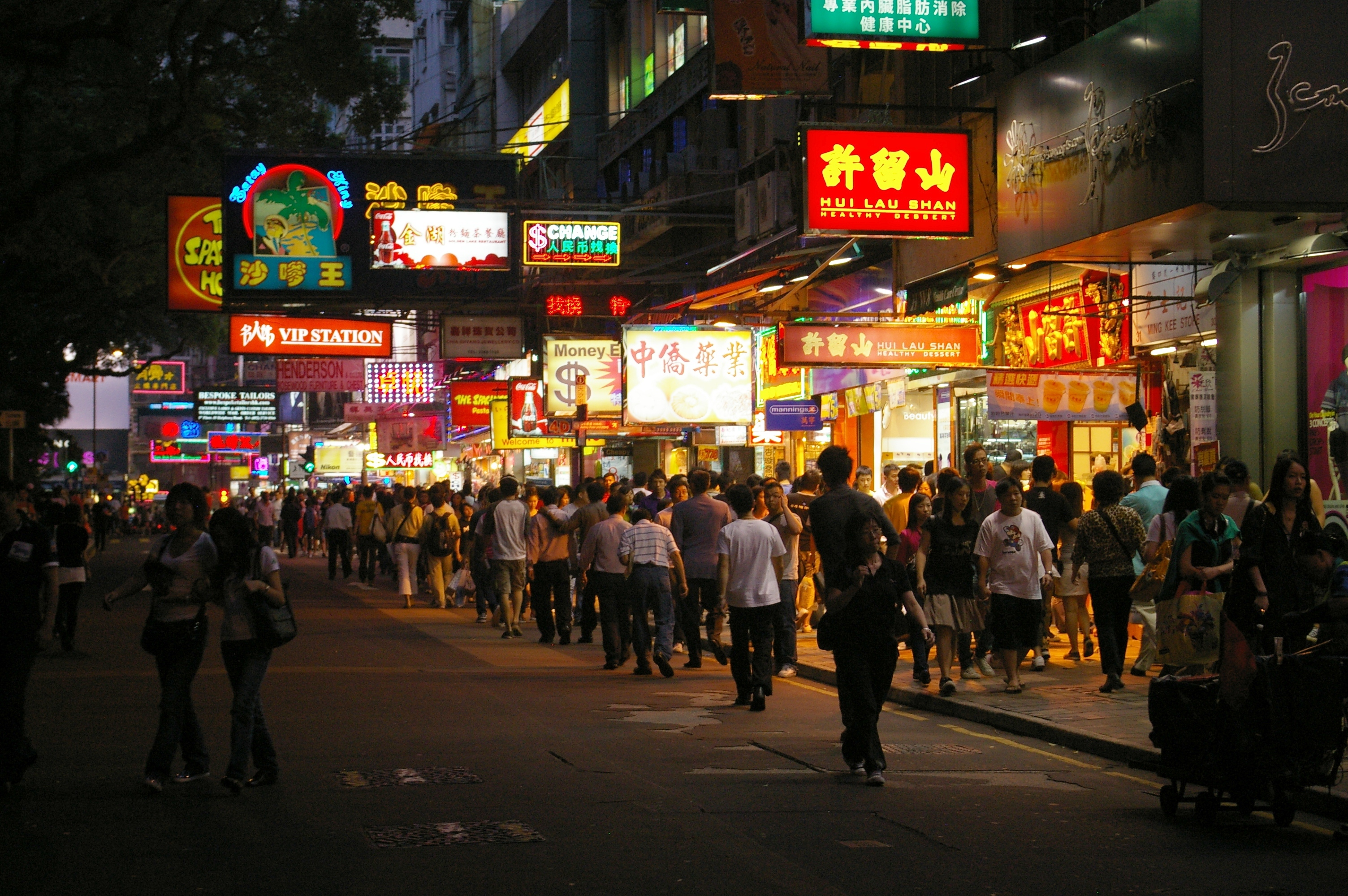 Street of Kowloon in Hong Kong at night